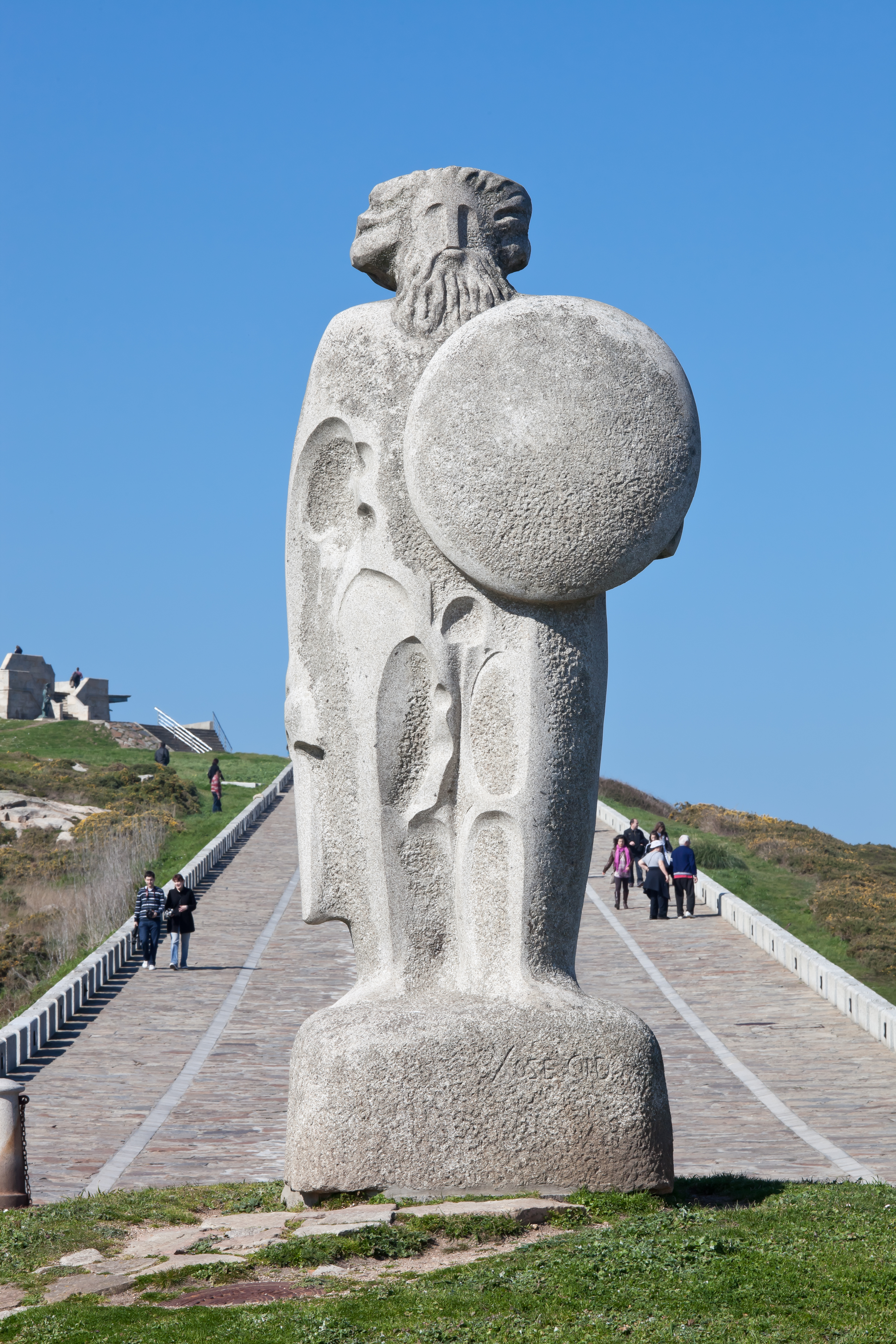 Breogan and the Tower of Hercules, A Coruña, GaliciaGalego: Breogán e a Torre de Hércules, A Coruña, Galicia